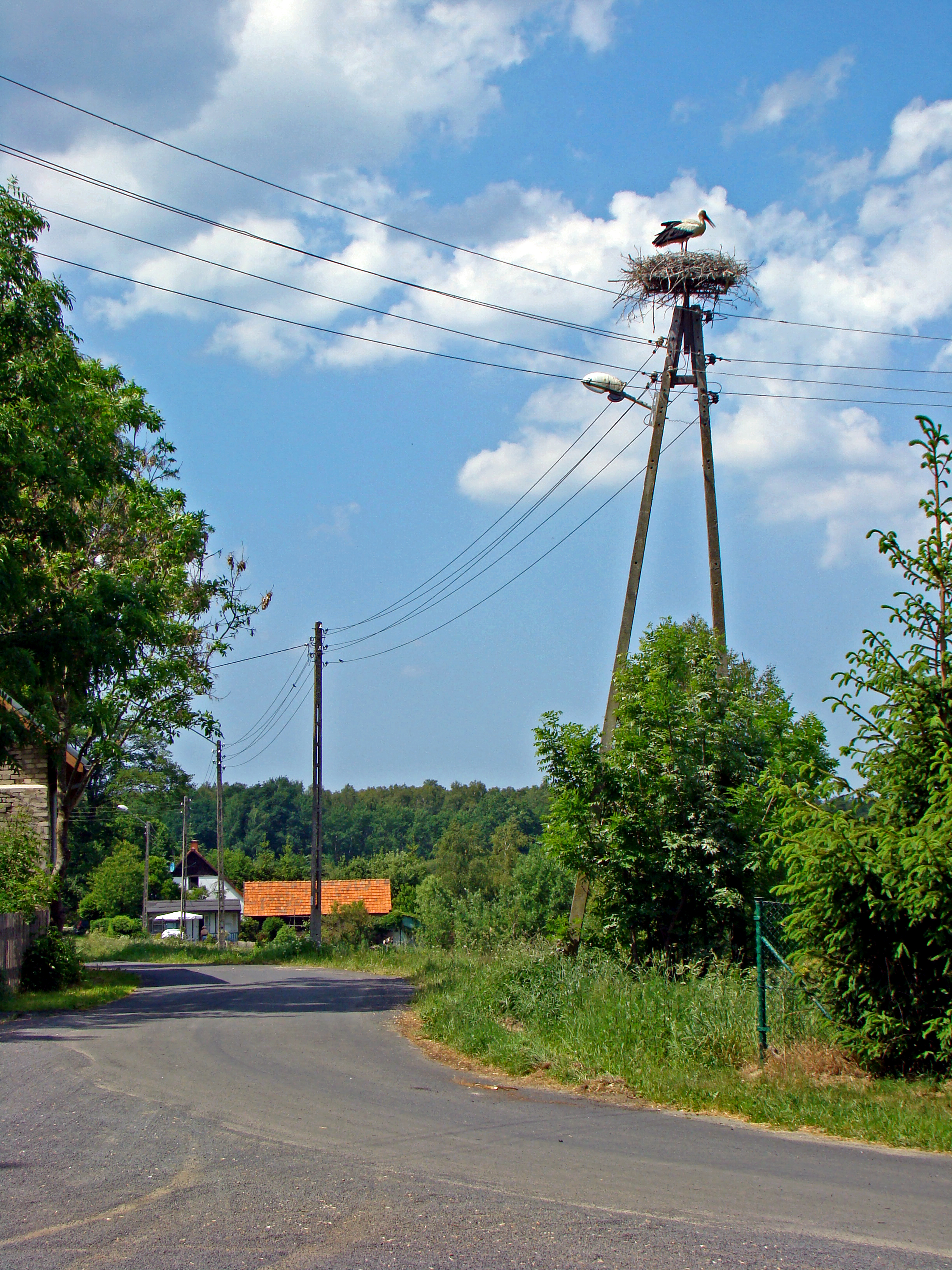 Niczonow (Niczonow Forest), West Pomeranian Voivodeship, Poland